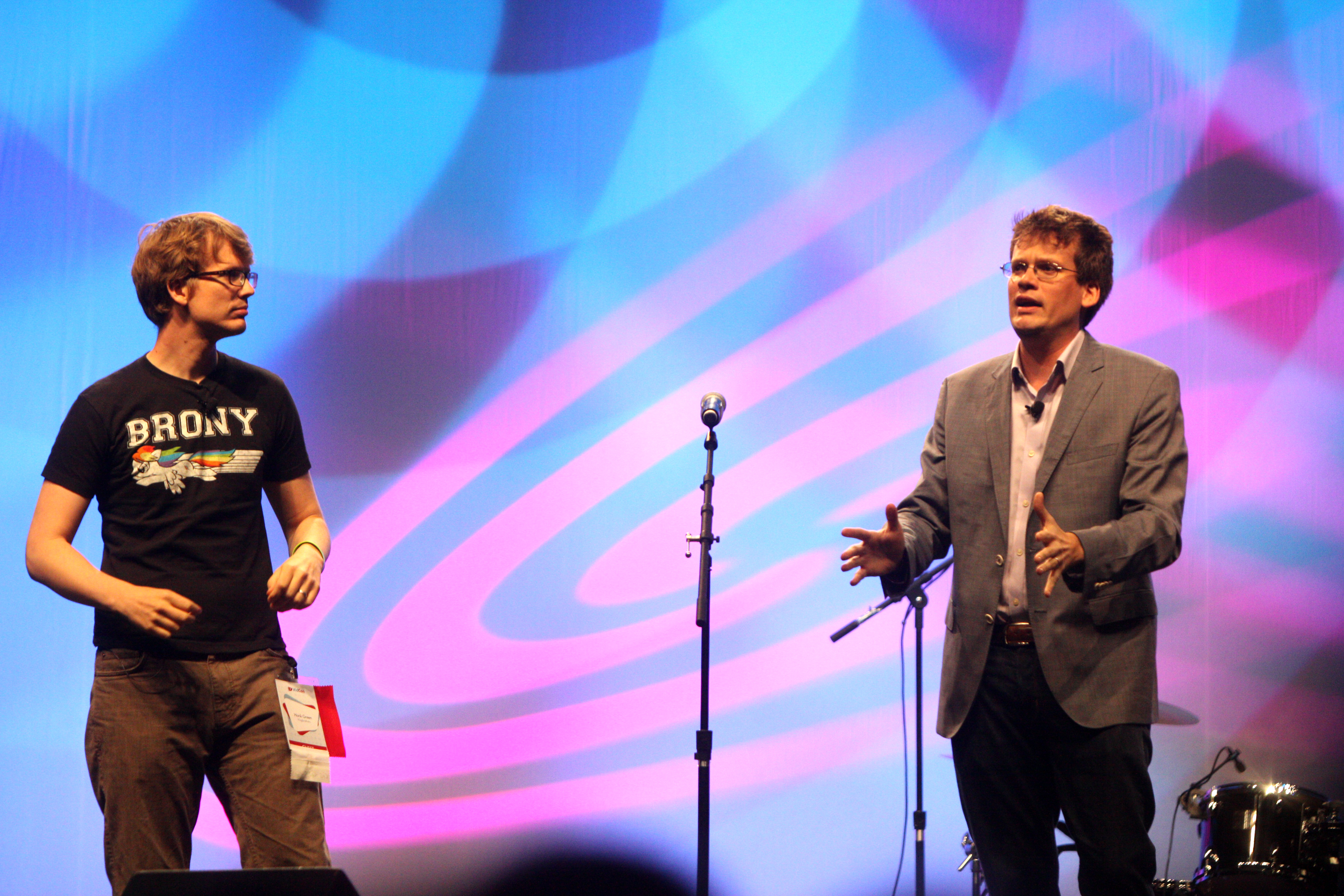 John & Hank Green speaking at VidCon 2012 at the Anaheim Convention Center in Anaheim, California.